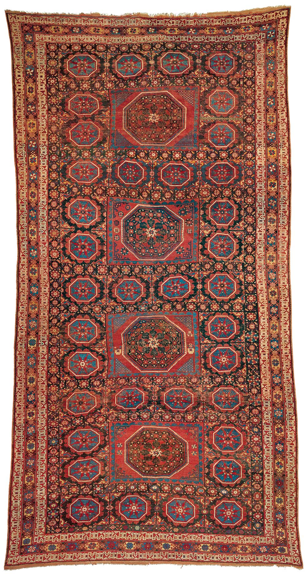 Large-pattern Holbein carpet with four large octagons and a double kufesque border, Anatolia, C-14 dated to 1370–1450 ad (95.4% probability). Wool pile on a wool foundation, 2.60 x 5.02 m (8′ 6″ x 16′ 6″). Romain Zaleski Collection, courtesy Moshe Tabibnia, Milan